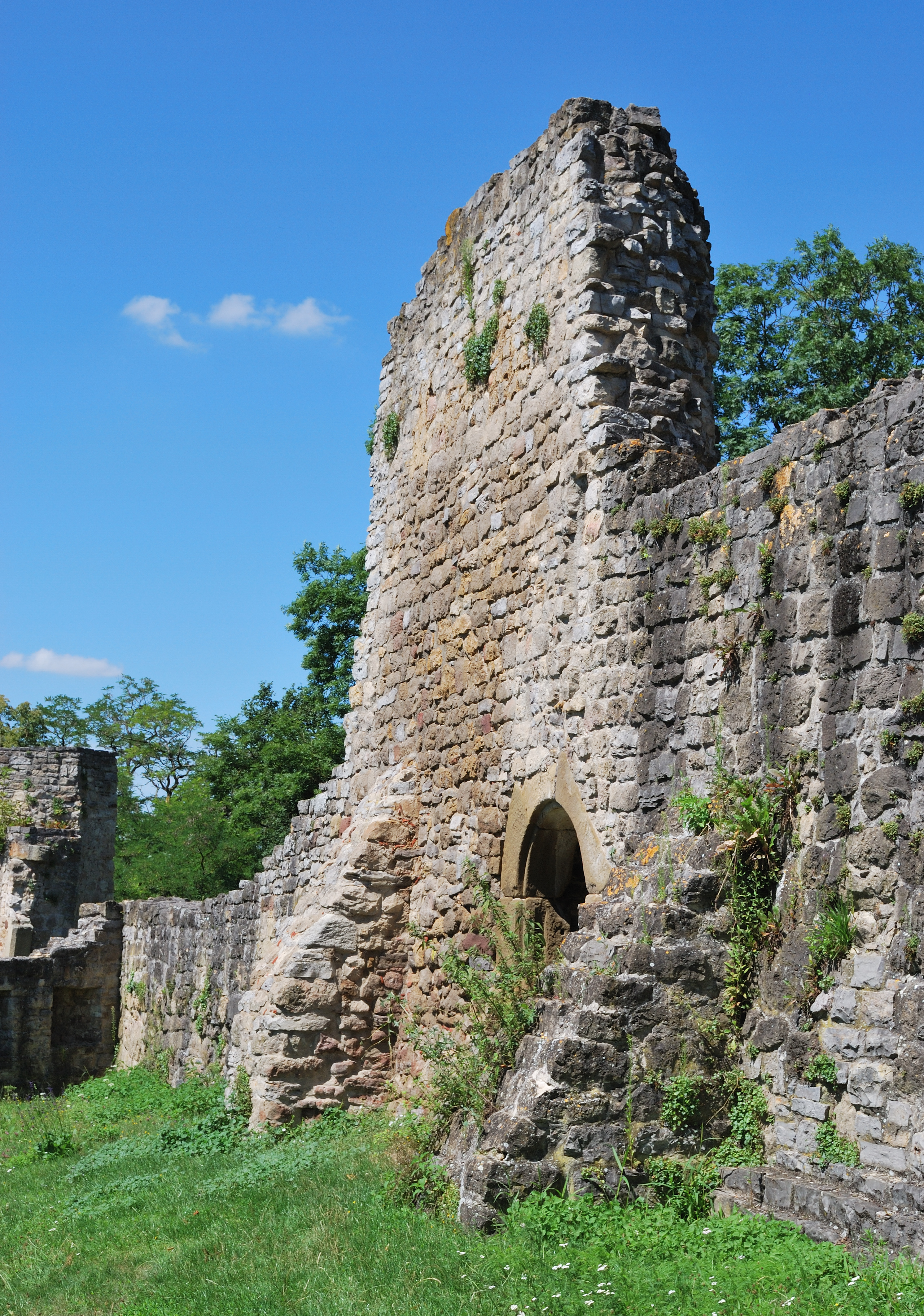 Remains of the curtain wall on the south side of the Nippenburg near Schwieberdingen in Southern Germany.